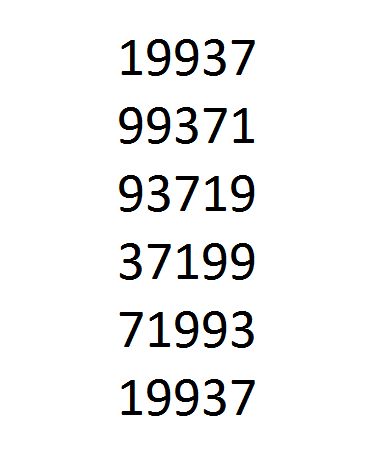 The cyclic permutations of the prime number 19937.